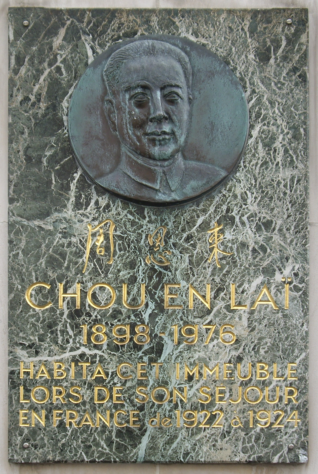 Commemorative plaque, 17 rue Godefroy, 13th arrondissement of Paris. "Zhou Enlai, 1898-1976, lived in this building during his stay in France from 1922 to 1924."